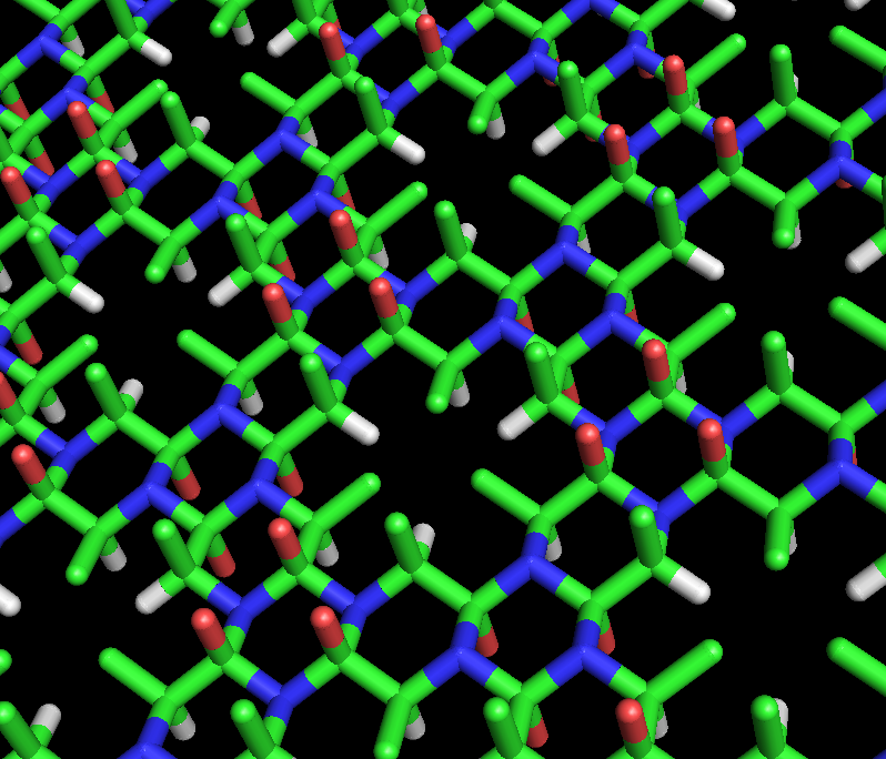 "Stick" image of the cyclol "fabric" proposed by Dorothy Maud Wrinch in 1936 (Nature, _137_, 411-412). This fabric is characterized by large "lacunae" arranged in a hexagonal pattern, in which three Cβ and three Hα converge on a (relatively) empty spot in the fabric. The two sides of the fabric are not equivalent; all the Cβ atoms emerge from the same side, which is the "upper" side here. The red atoms represent hydroxyl groups (not carbonyl groups) and emerge (in sets of three) from both sides of the fabric. The PDB file was constructed by me using my own software and visualized using PyMol; both were done on 20 October 2006. I hereby release this image under the GFDL.